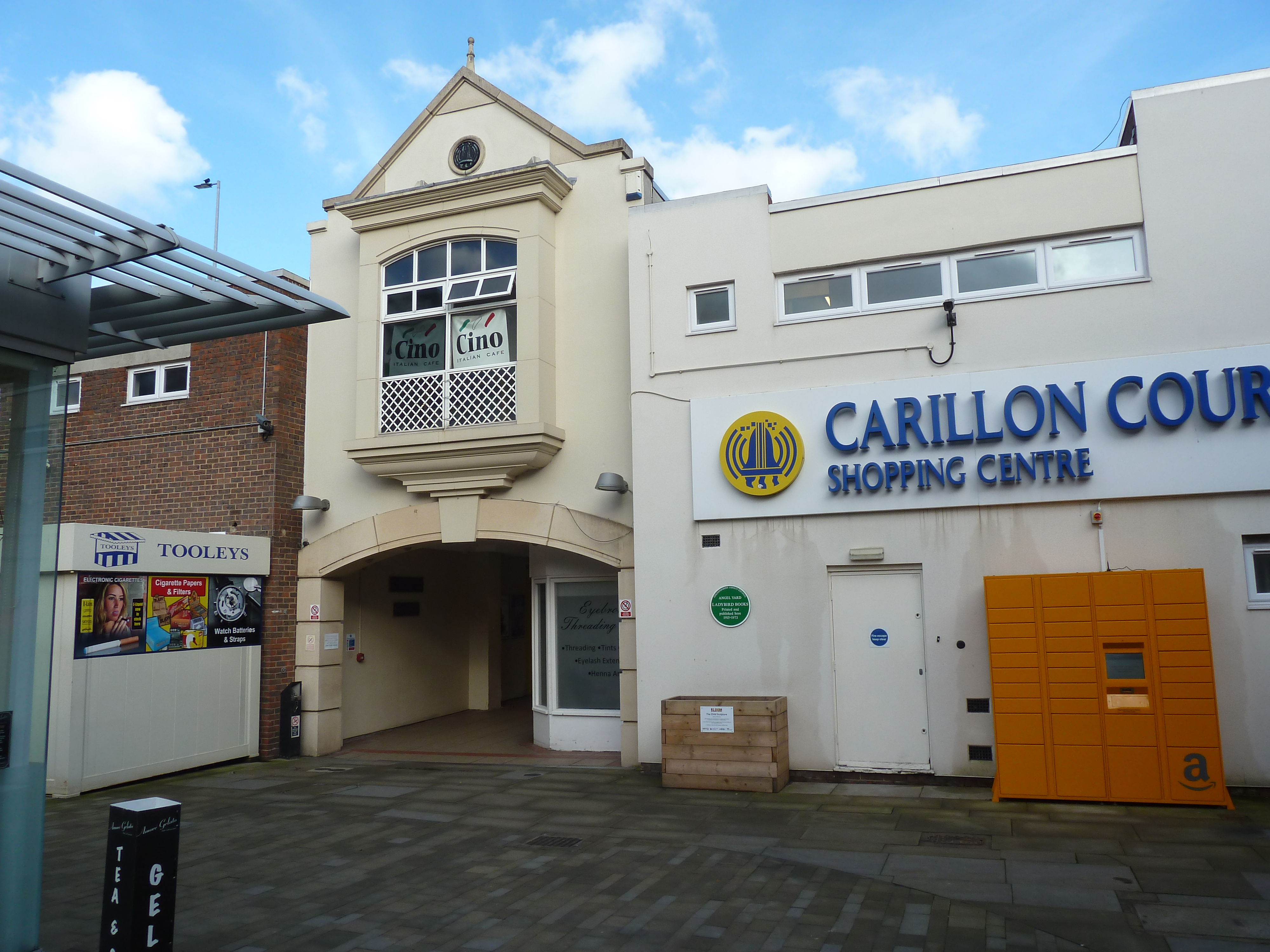 A green plaque was erected on 31st July, 2015 to celebrate one hundred years of ladybird books the company started in the town of Loughborough, Leicestershire in 1915